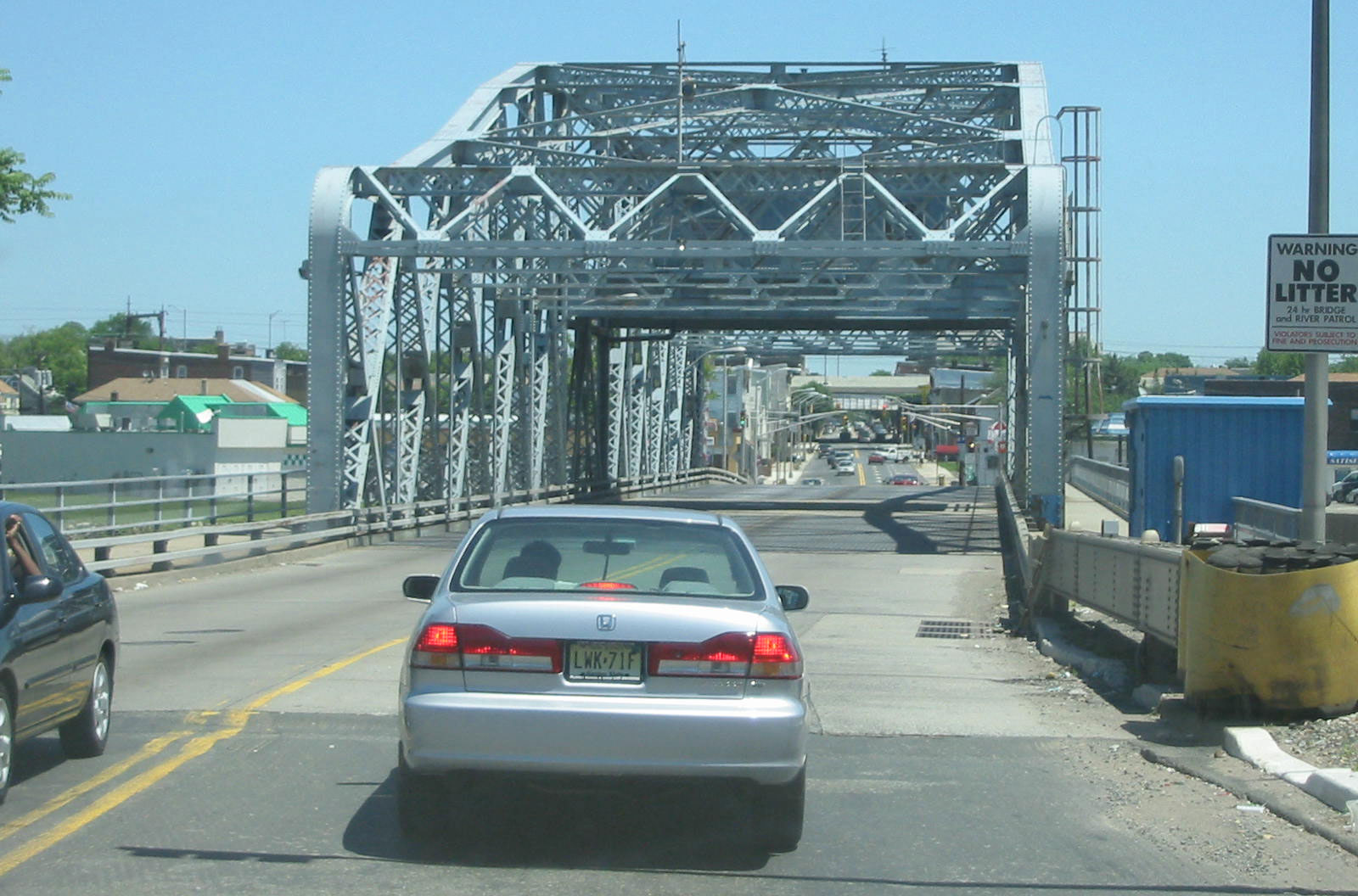 Looking east through the Bridge Street Bridge over the Passaic River in Newark, New Jersey and Harrison, New Jersey. Photo taken May 30, 2004 by User:SPUI.